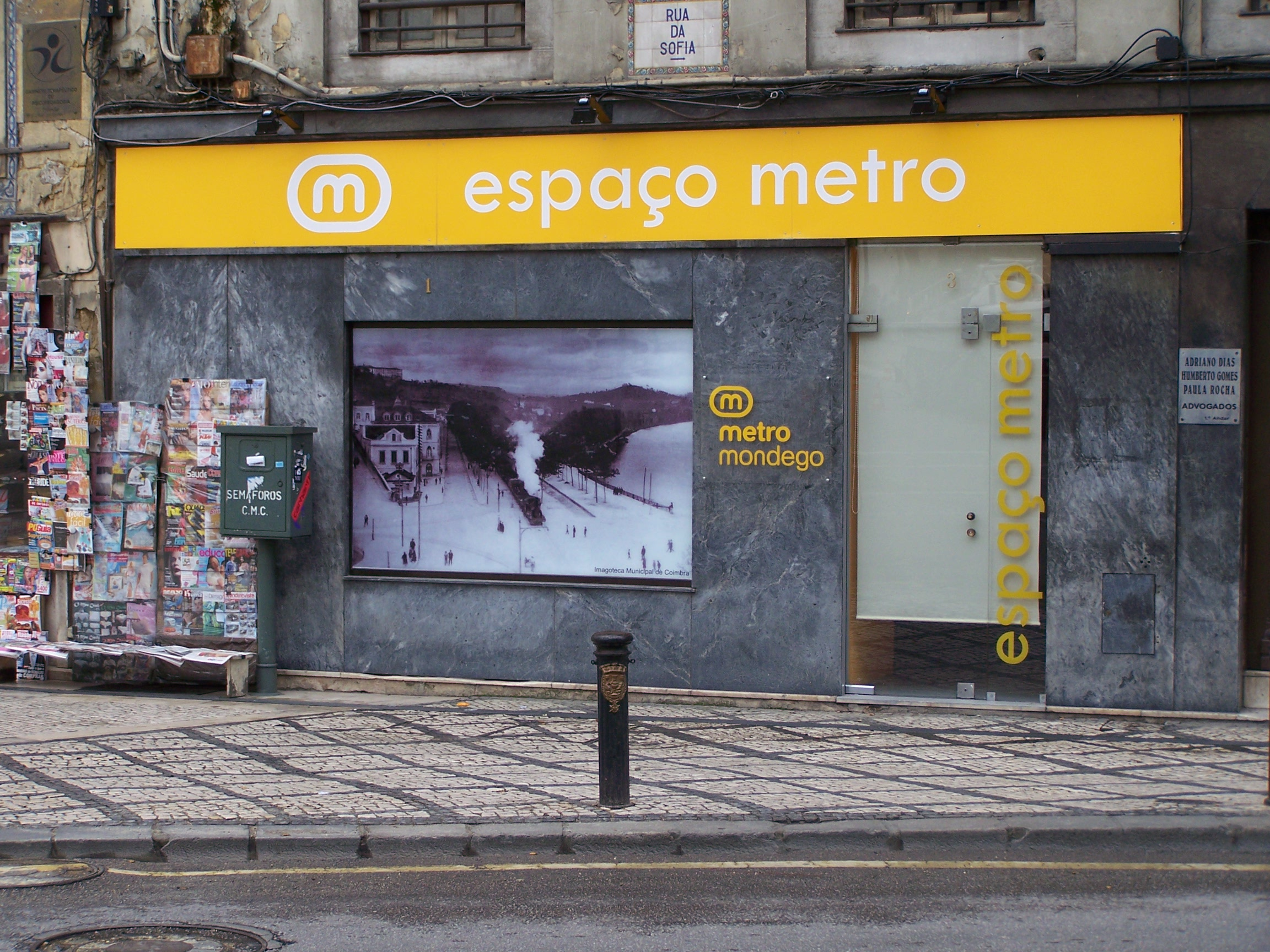 "Espaço Metro Mondego (space with information about the project of the Metro Mondego, Rua Sofia, Coimbra, Portugal